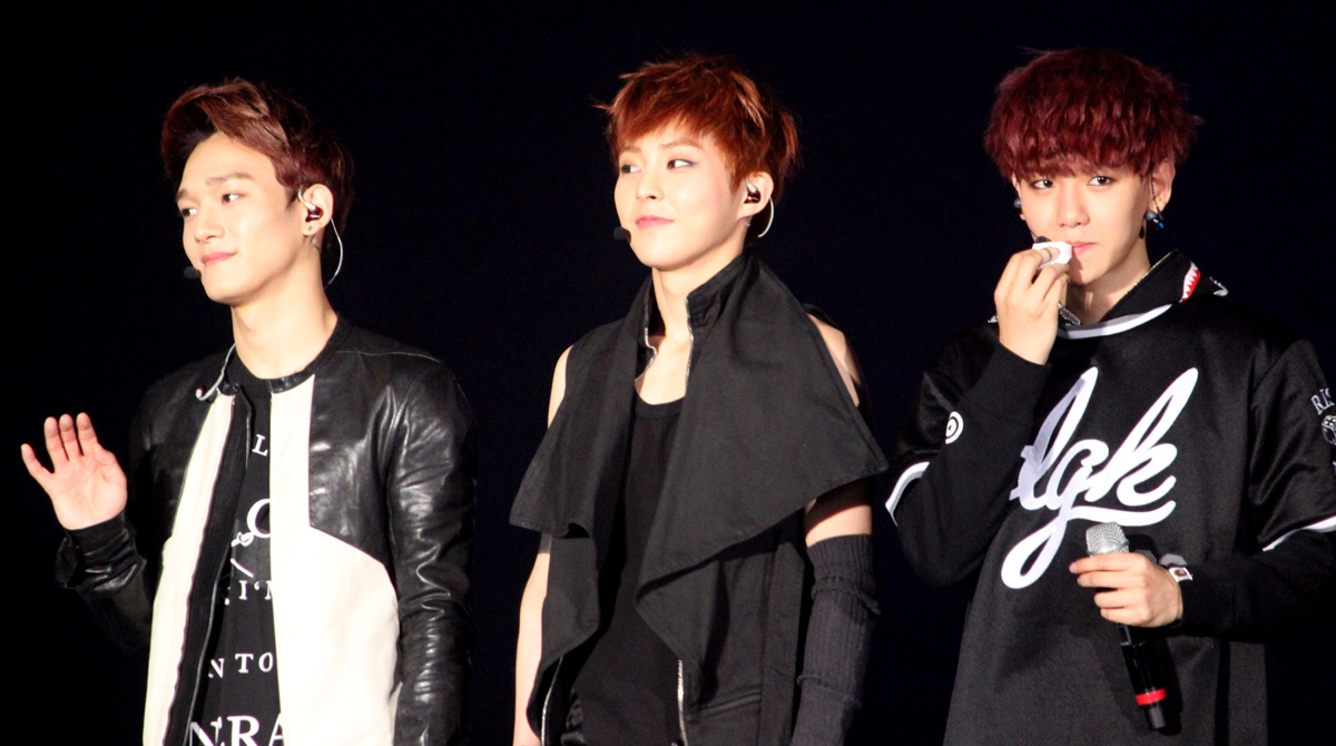 EXO at the SMTown Week on December 24, 2013.Português do Brasil: EXO na SMTown Week em 24 de dezembro de 2013.